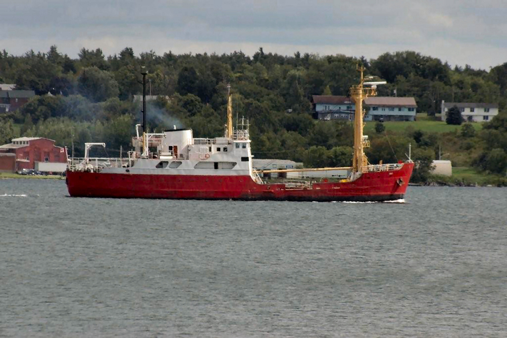 2007-01 former CCGS Simcoe makes its way upstream on the St. Lawrence River enroute to Northern Georgian Bay.